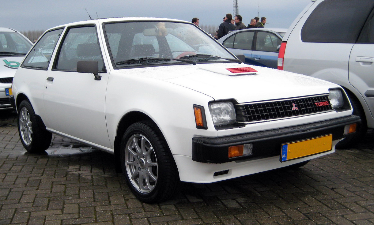 1982-83 European-spec Mitsubishi Colt (Mirage) Turbo, with aftermarket alloys.